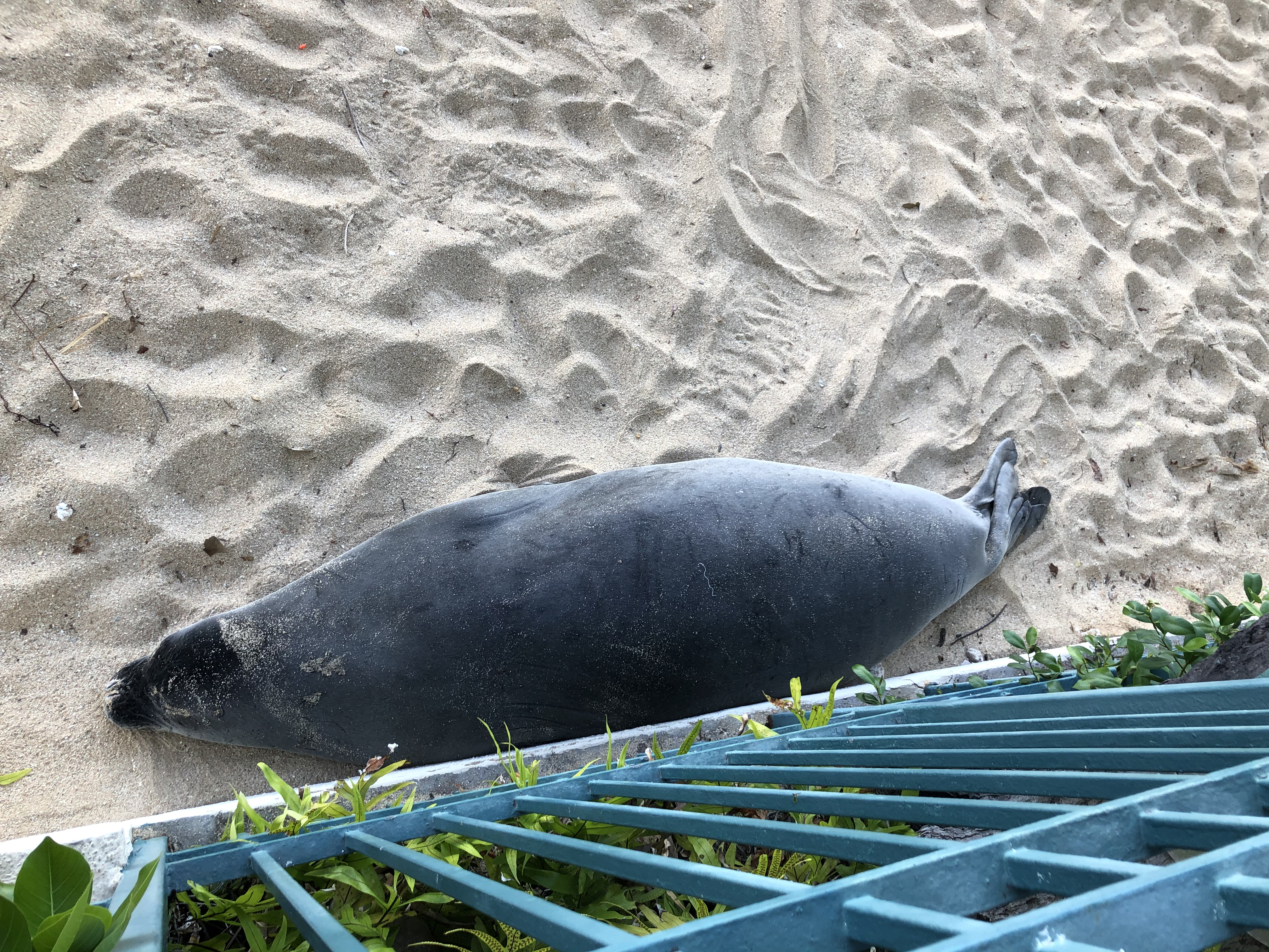 Close-up of one of the two Hawaiian monk seals at Kaimana beach on November 2, 2019 before swimming away shortly thereafter.